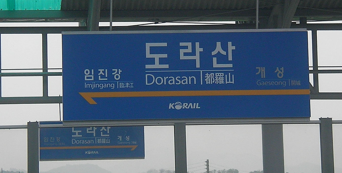 Dorasan Station name plate